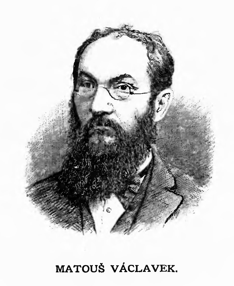 Portrait of Matouš Václavek (1842-1908), Czech teacher and writer.